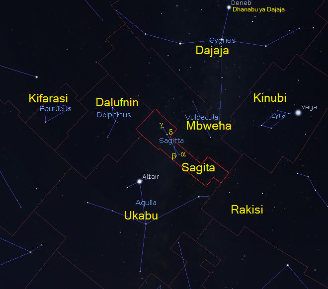 Constellation Sagitta as seen from Tanzania, Swahili labelled Kiswahili: Kundinyota Sagita (Sagitta) jinsi inavyoonekana kutoka Tanzania, majina kwa Kiswahili